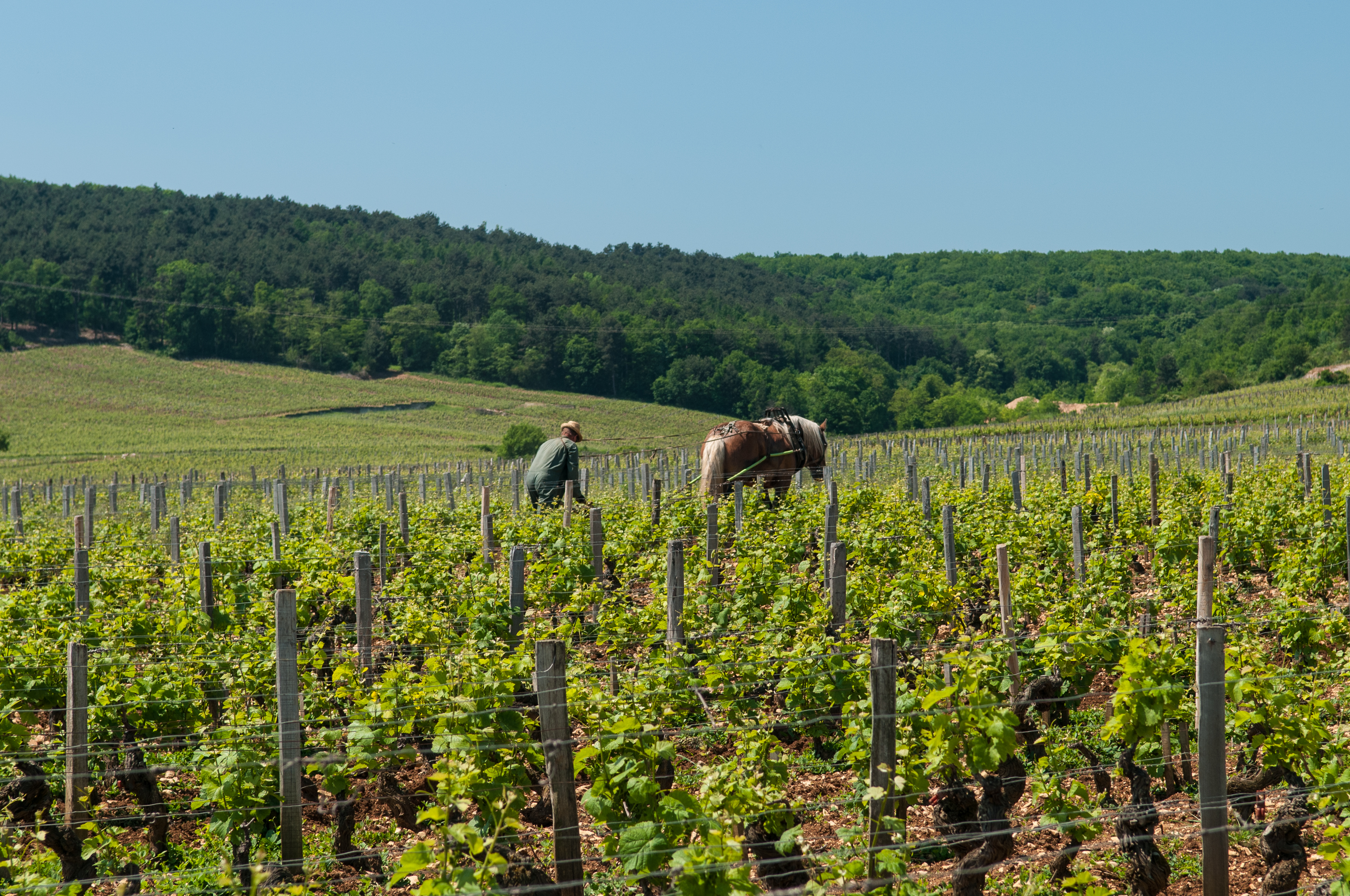 A vineyard worker manually tills the soil near Vosne-Romanée in Burgundy